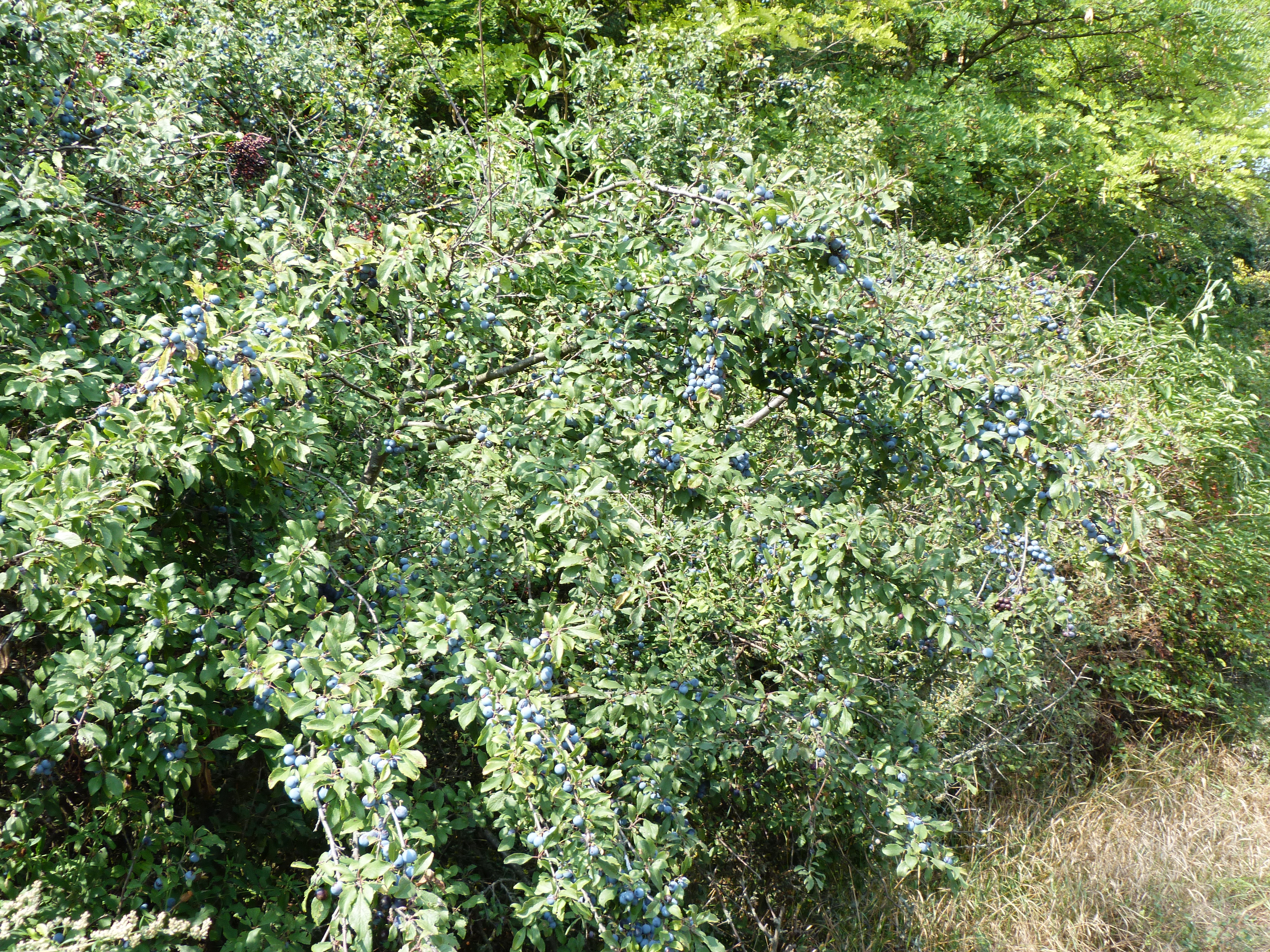 Blackthorn (Slån or Slånbärsbuske in Swedish, Slåpetorn in norwegian, Slåen in danish, Oratuomi in finnish, Prunellier in french, Sleedoorn in dutch and Schwarzdorn in german and "kökény" in hungarian). Organic (wild) blackhorn. Live on the 27th of August, 2015. Side of Matacshegyalja forest, Balatonkenese, Hungary.